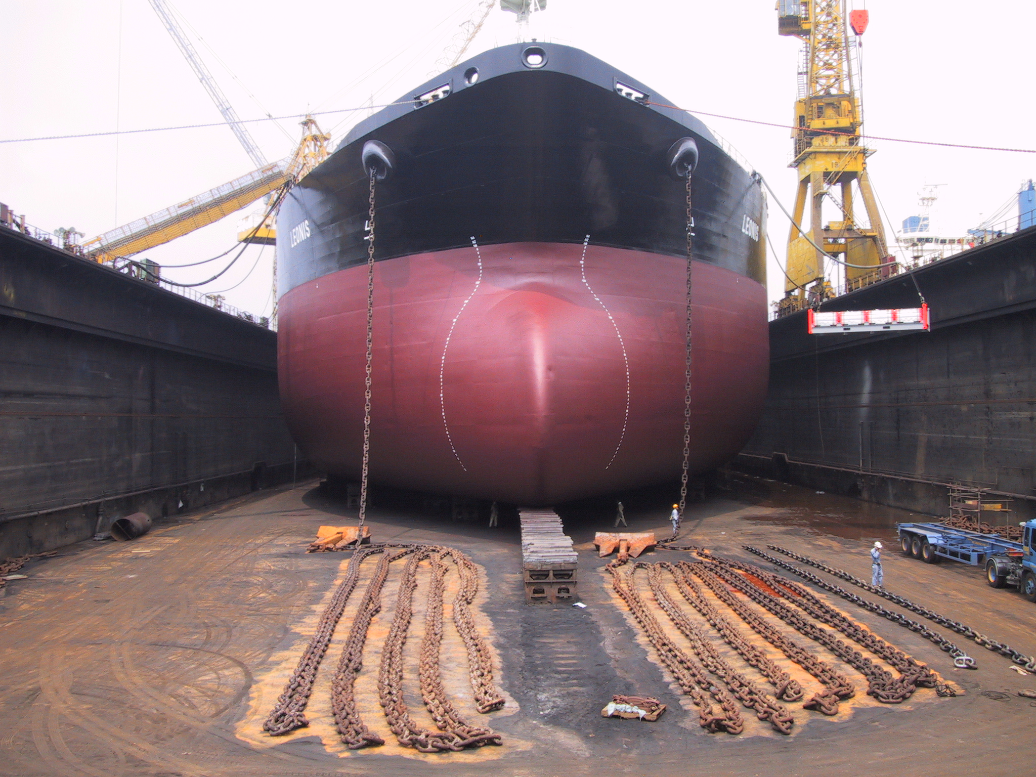 Tanker Leonis in dry dock in Singapore, Sembawang Shipyard IMO Number: 9012692 MMSI Number: 247256000 Callsign: IBQL Length: 190 m Beam: 35 m